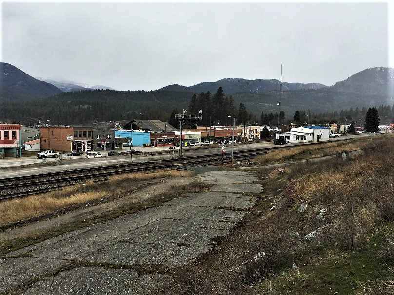 Northern Pacific Warehouse Structure shown in Listing image no longer exists and would have been sited at the left of this scene near the intersection of Preston Avenue and Cedar Street.